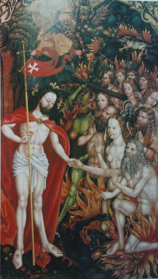 The Picture Christ in Limbo by Hans Raphon (1499), originally purposed for the chapel in Göttingen, now property of the Czech National Gallery in Prague